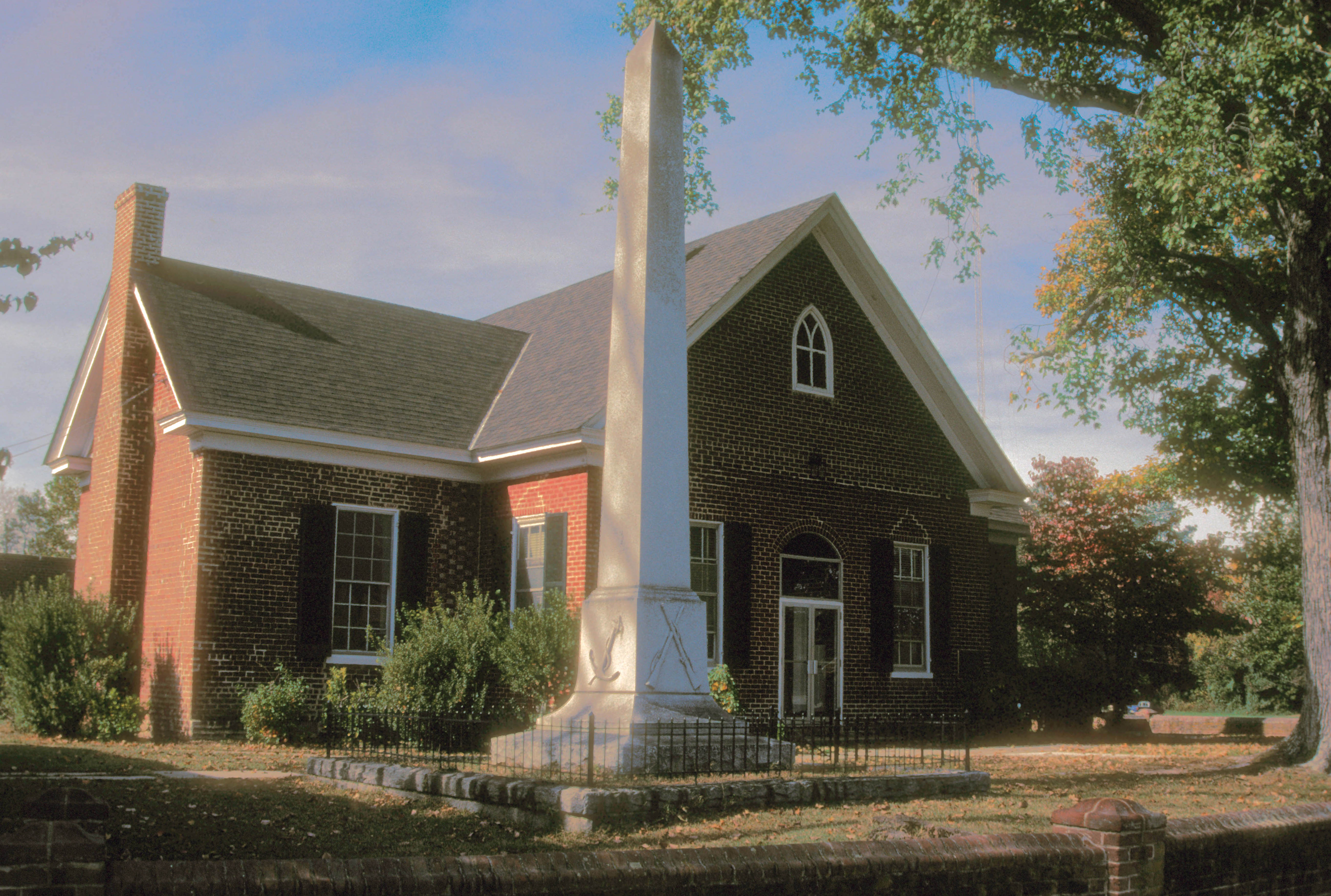 HAS OCCUPIED THE SAME SITE SINCE THE FORMATION OF THE COUNTY IN 1691. BUILT ON LAND GIVEN TO THE COUNTY BY MR. EDMUND TUNSTALL, IT WAS BURNED AND REBUILT TWICE. THE FIRST MEETING IN THE CURRENT COURTHOUSE WAS HELD ON DECEMBER 6, 1866.